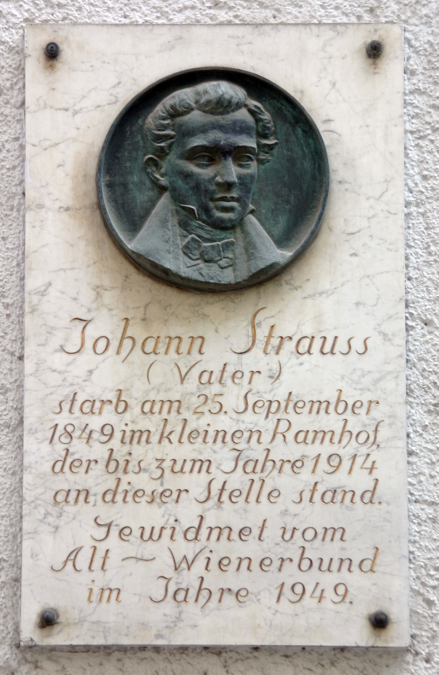 Plaque in Vienna